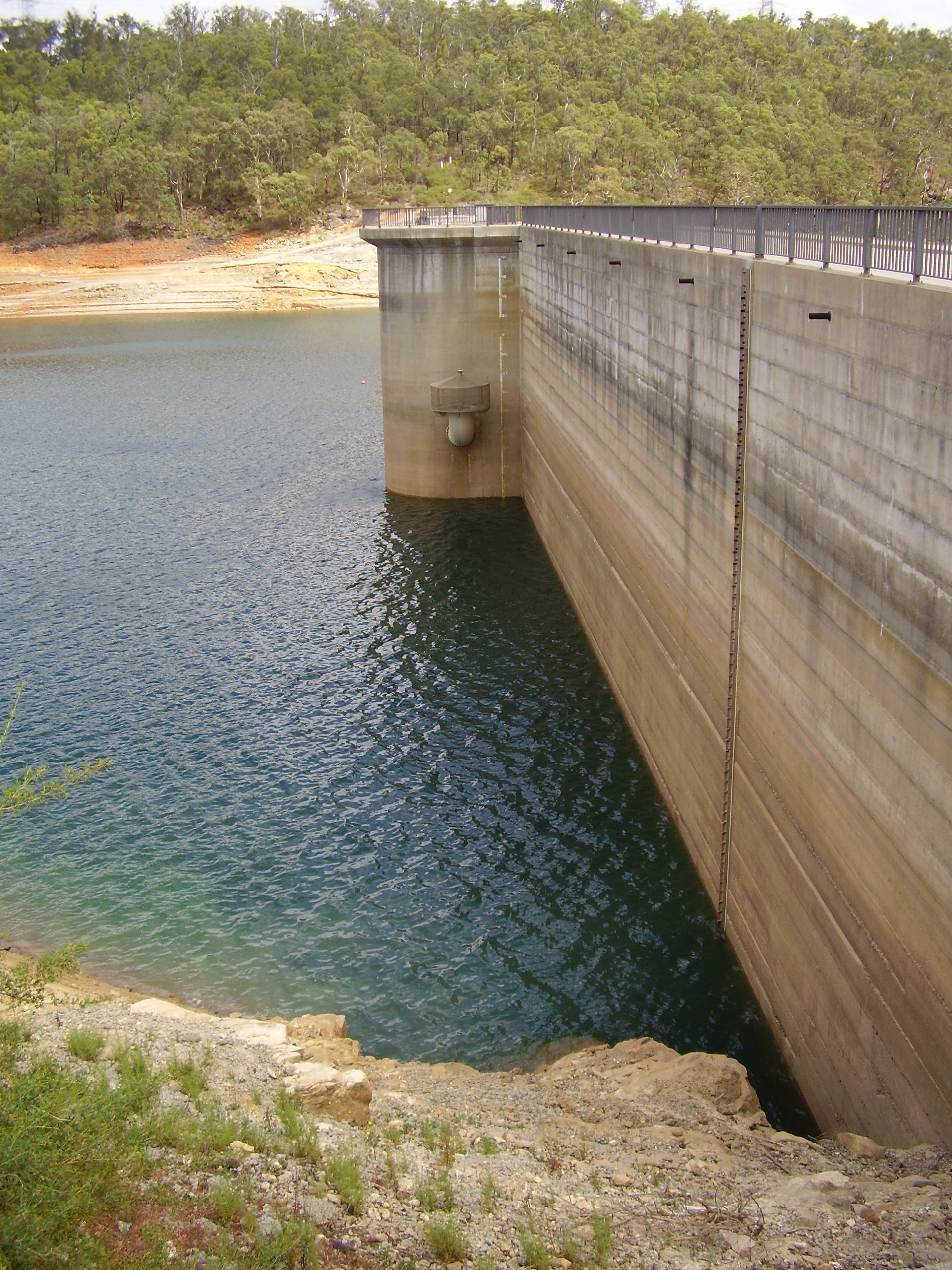 The dam wall and water of New Victoria Dam in Perth, Western Australia at 30.6% of its capacity.